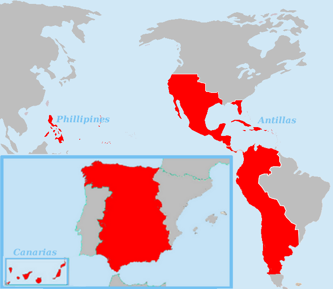 Crown of Castile-Leon overseas